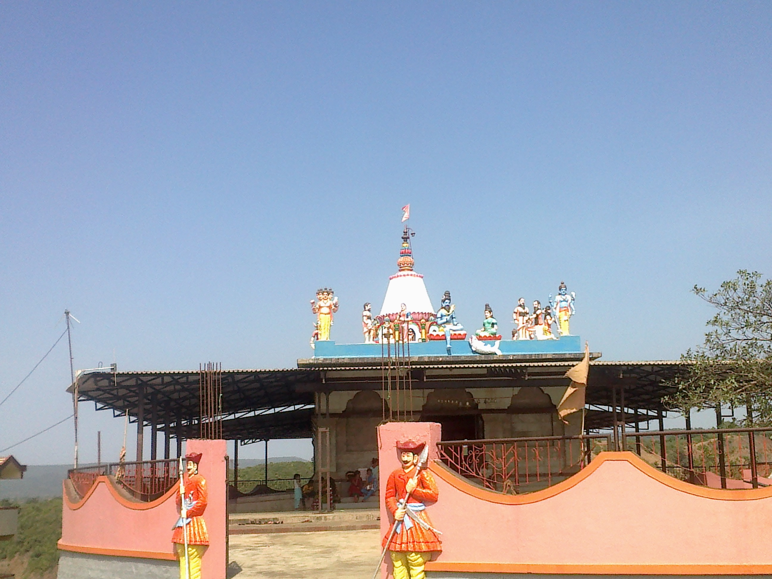 gagangad